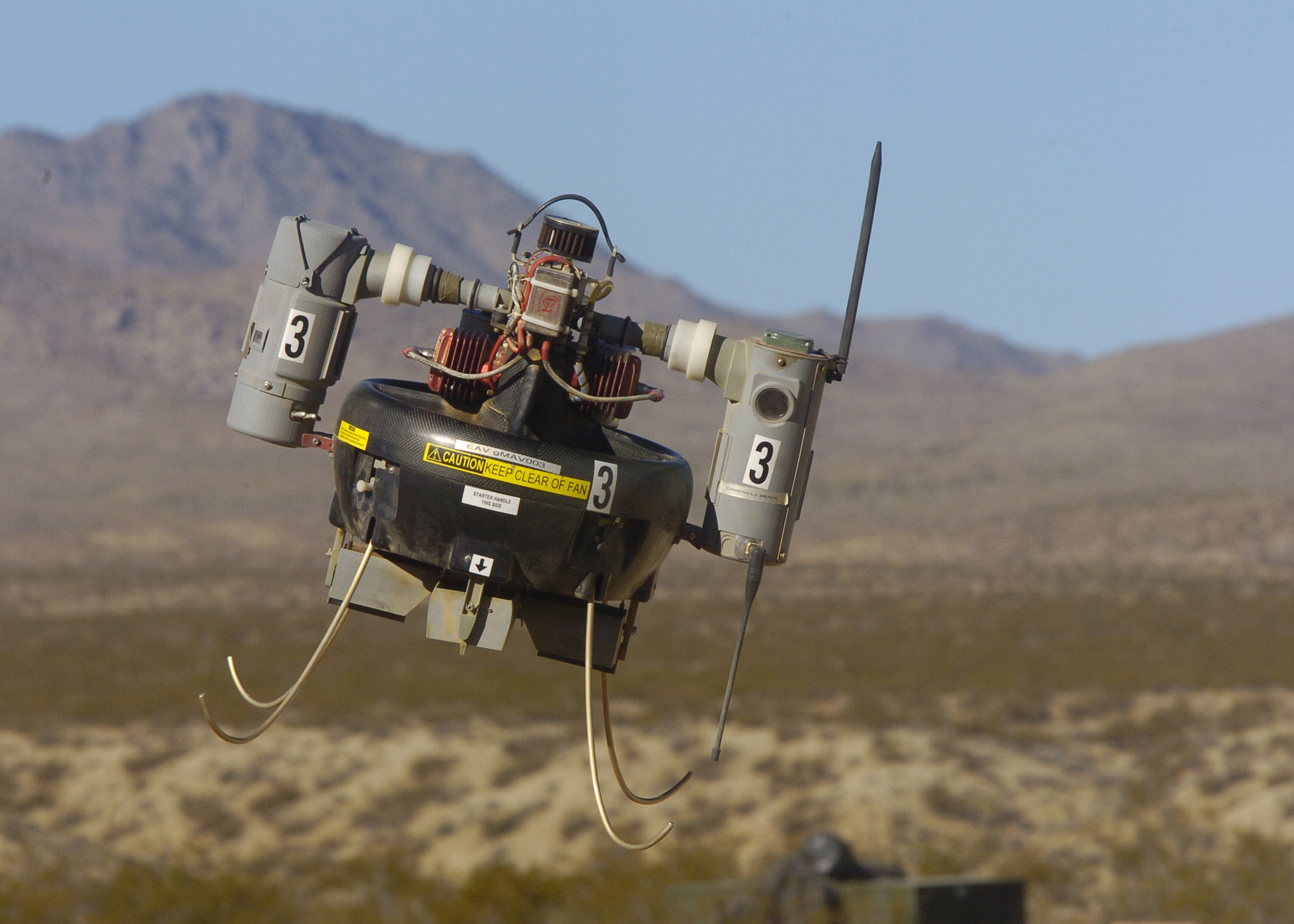 China Lake, Calif. (Nov. 14, 2006) - A Micro Air Vehicle (MAV) flies over a simulated combat area during an operational test flight. The MAV is in the operational test phase with military Explosive Ordnance Disposal (EOD) teams to evaluate its short-range reconnaissance capabilities. U.S. Navy photo by Mass Communication Specialist 3rd Class Kenneth G. Takada (RELEASED)